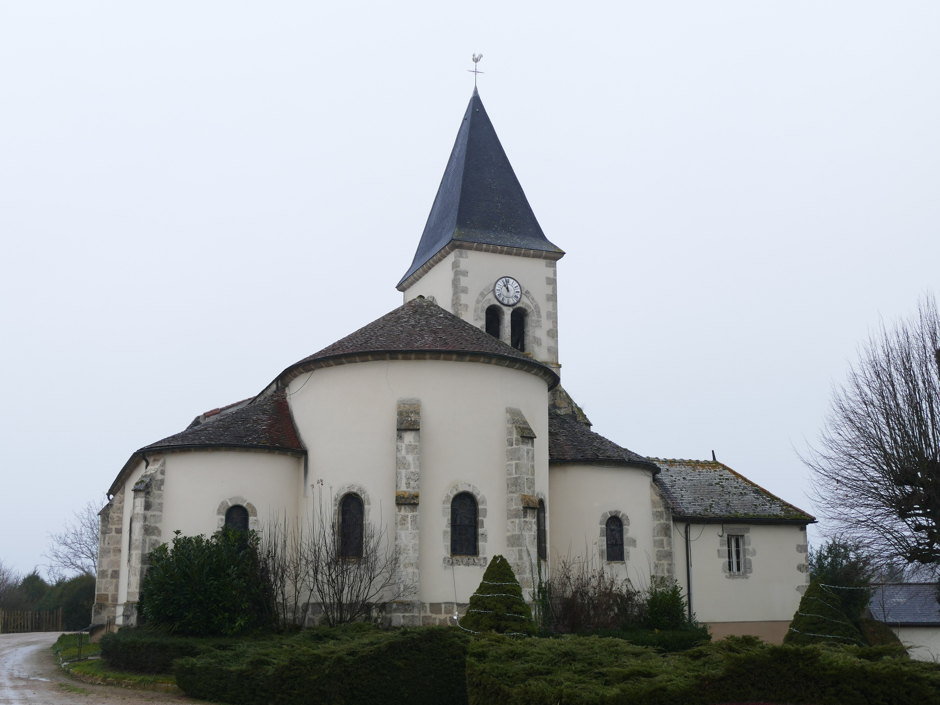 Saint-Maurice's church in Treteau (Allier, Auvergne, France).